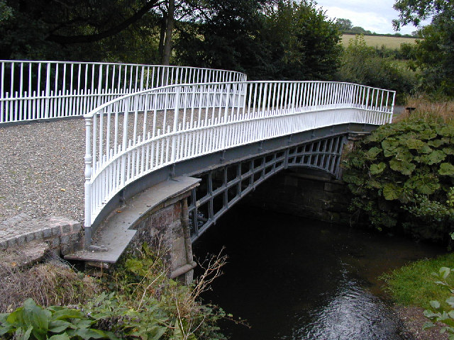 Cantlop Bridge. Built over Cound Brook by Thomas Telford in about 1820. He built another iron bridge over the same small stream.